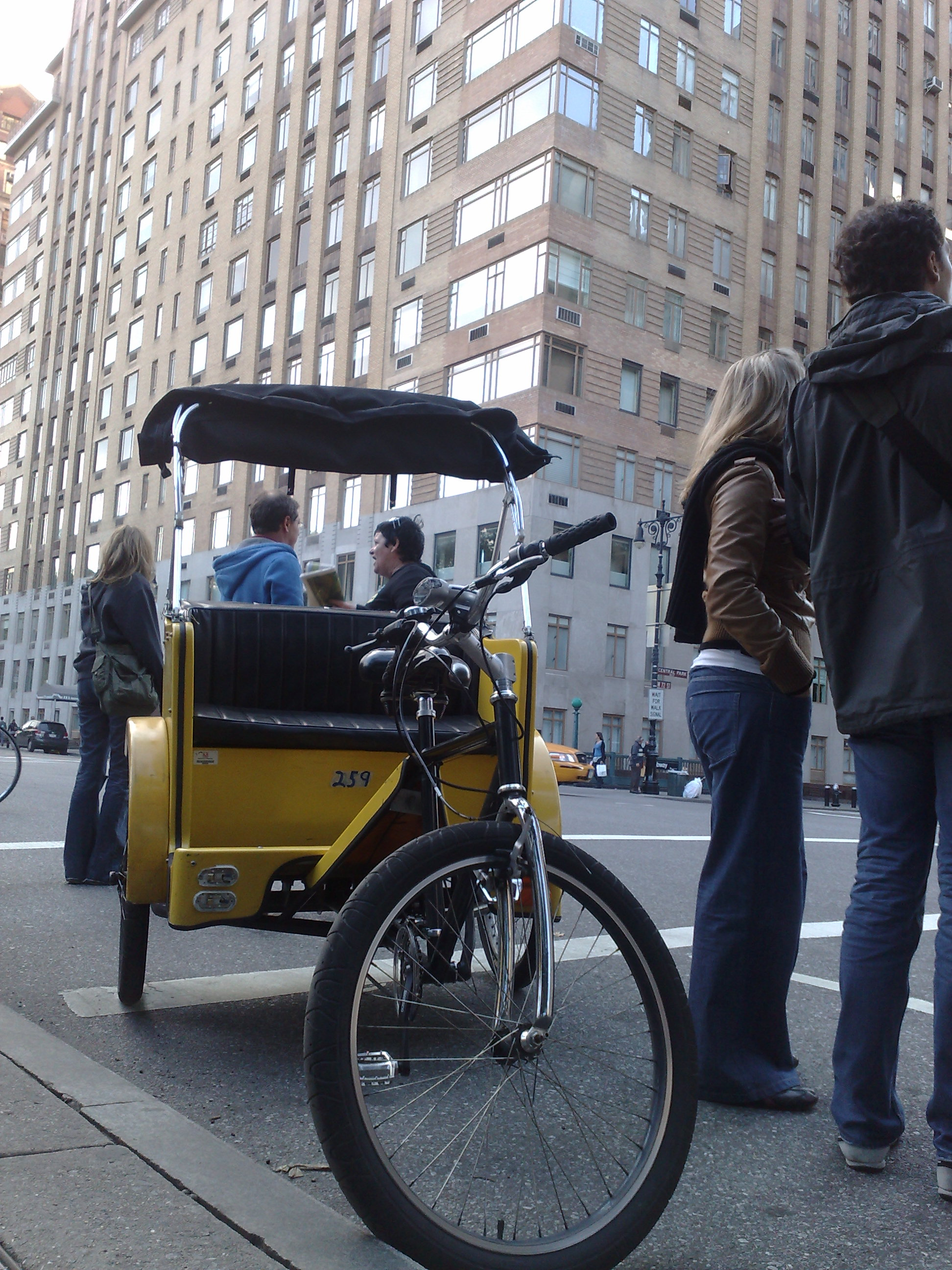 This photo is of Wikis Take Manhattan goal code S1, Pedicab.